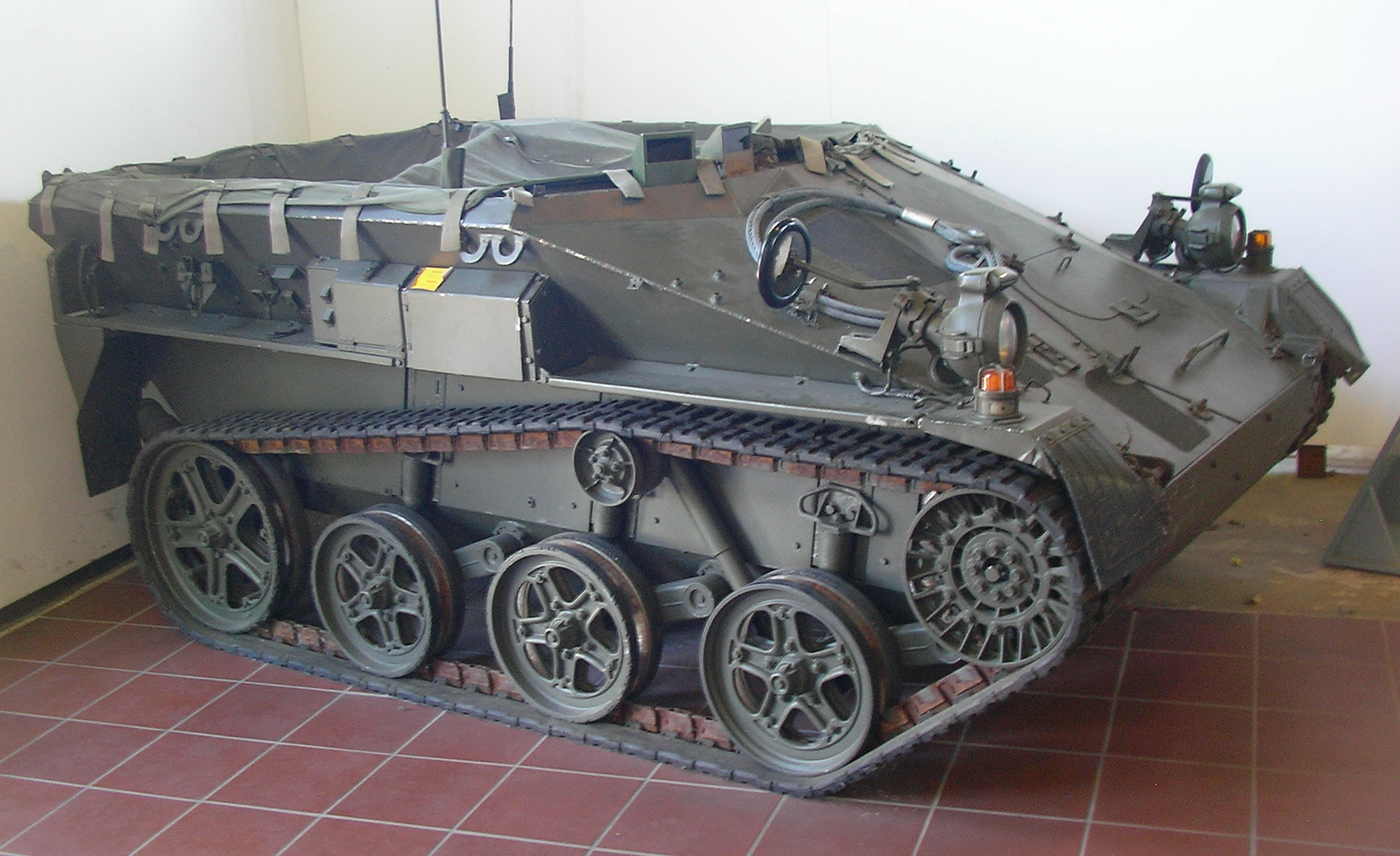 Wiesel 1 prototype "PT 06" made by Porsche